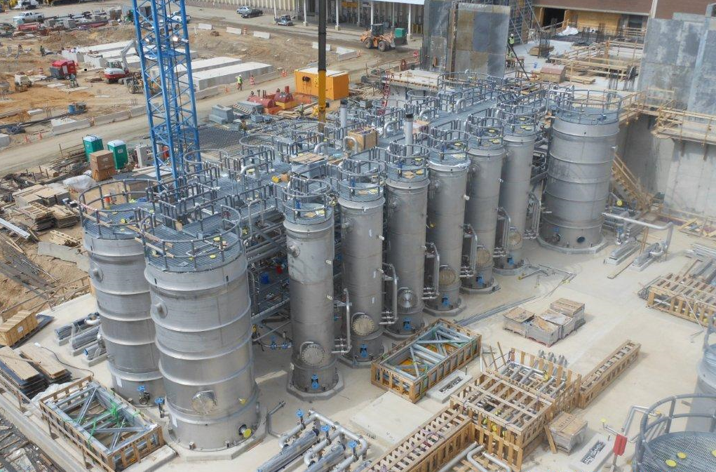 View of sludge thermal hydrolysis reactors, utilizing the Cambi process, being installed at the Blue Plains Wastewater Treatment Plant, Washington, D.C.